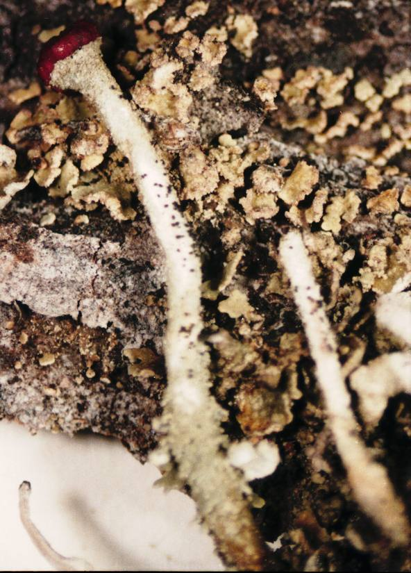 Cladonia floerkeana (Fr.) Flörke, 1828 (photograph of a herbarium specimen taken through a dissecting microscope (x12) showing podetia covered with coarsely granular soredia) Growing on bark of a conifer in open woods, near Crumley Creek, off US-68, Cheboygan County, Michigan, USA; collected and identified by Richard E. Riefner (No. 81-457, 14 Jul 1981); specimen is now in the Lichen Herbarium of the New York Botanical Garden.